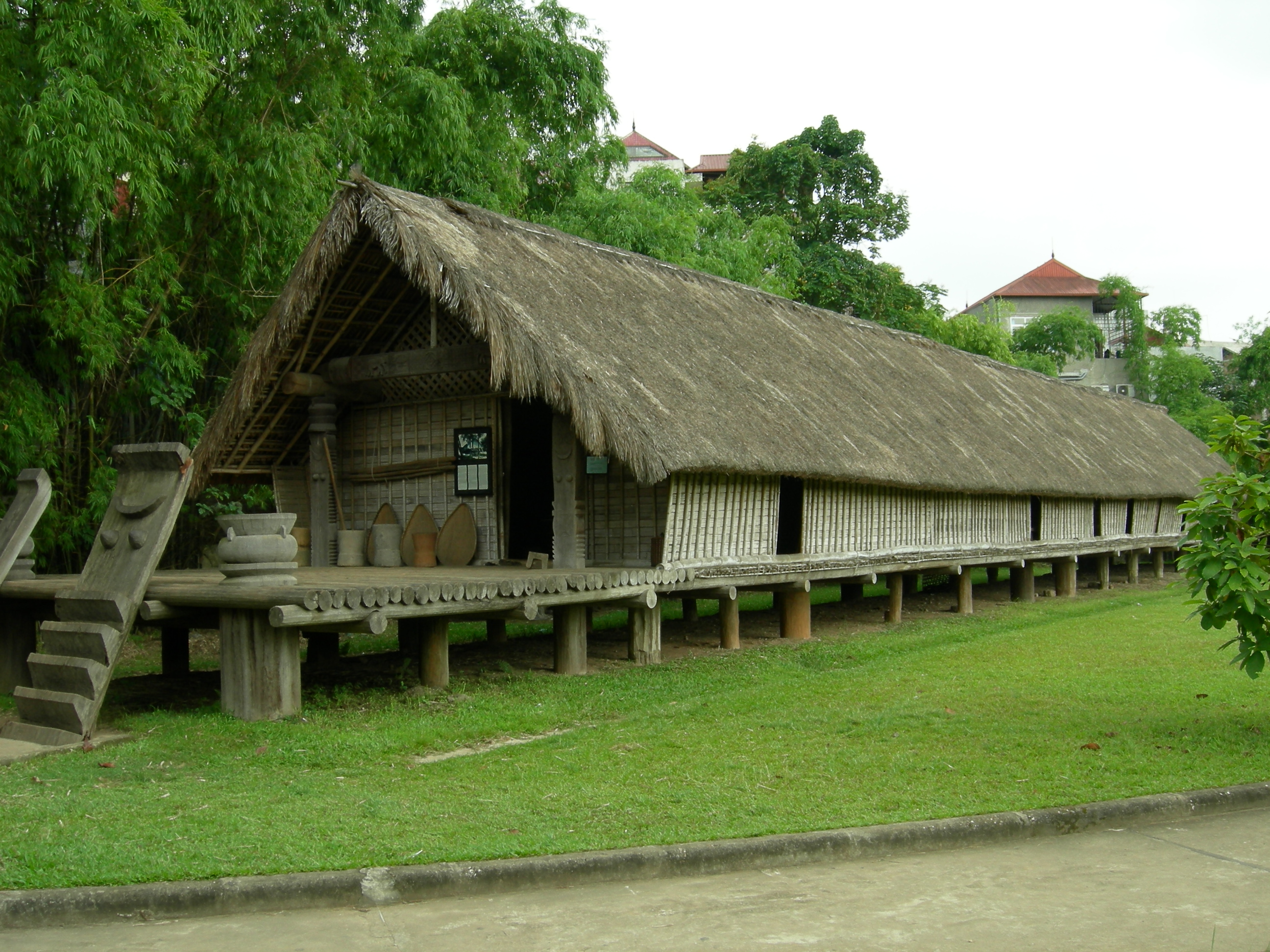 A longhouse of the Central Highland ethnic minority group Ede exhibited at the Vietnam Museum of Ethnology